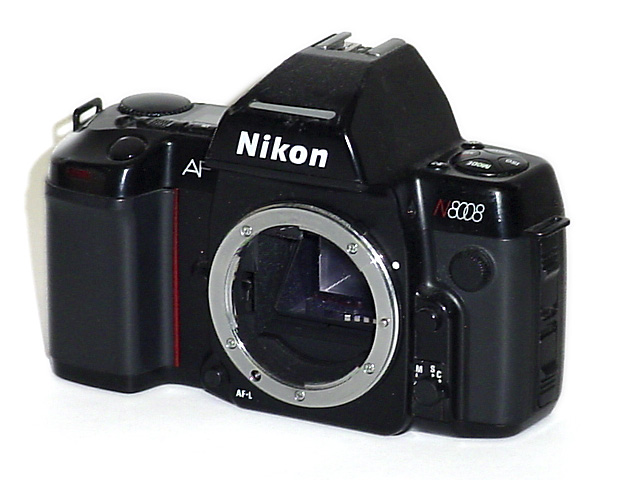 A Nikon N8008 (called the F801 outside of the US)